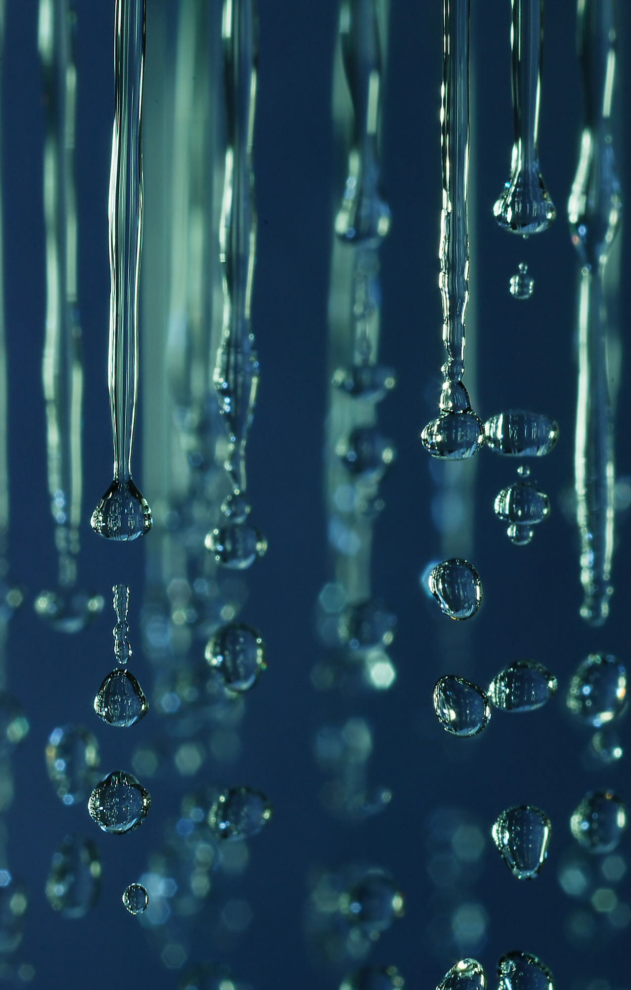 Falling water droplets photographed with about 1/12000 s exposure time